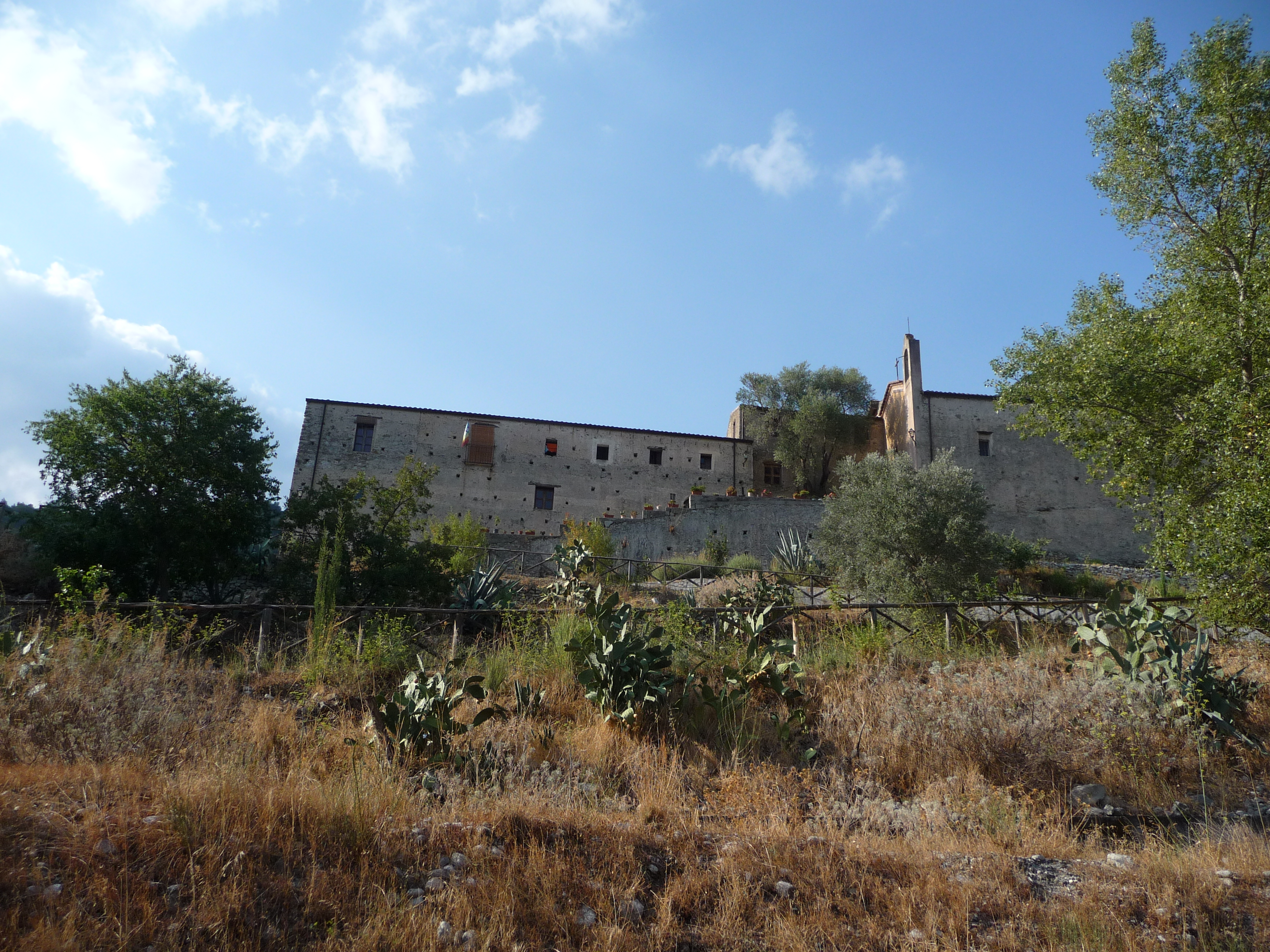 Convento of Sant'Ilarione (Caulonia - RC), Italy